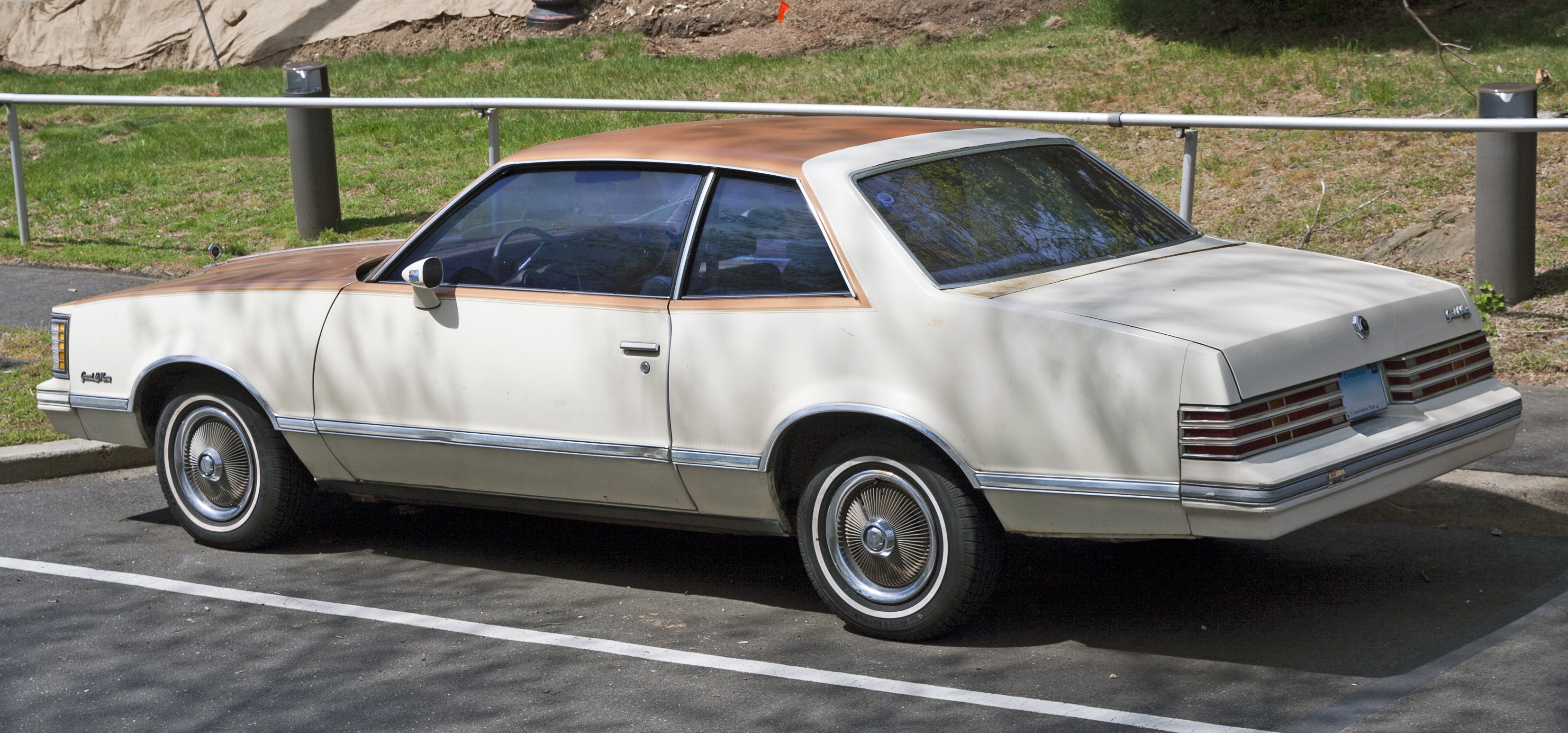 1980 Pontiac Grand LeMans two-door, one of only 9110 built in 1980. This particular example, fitted with a 4-barrel 301 ci V8 with 140hp, was built in Oshawa, Ontario, and would have cost $5,634 new not counting any additional equipment.